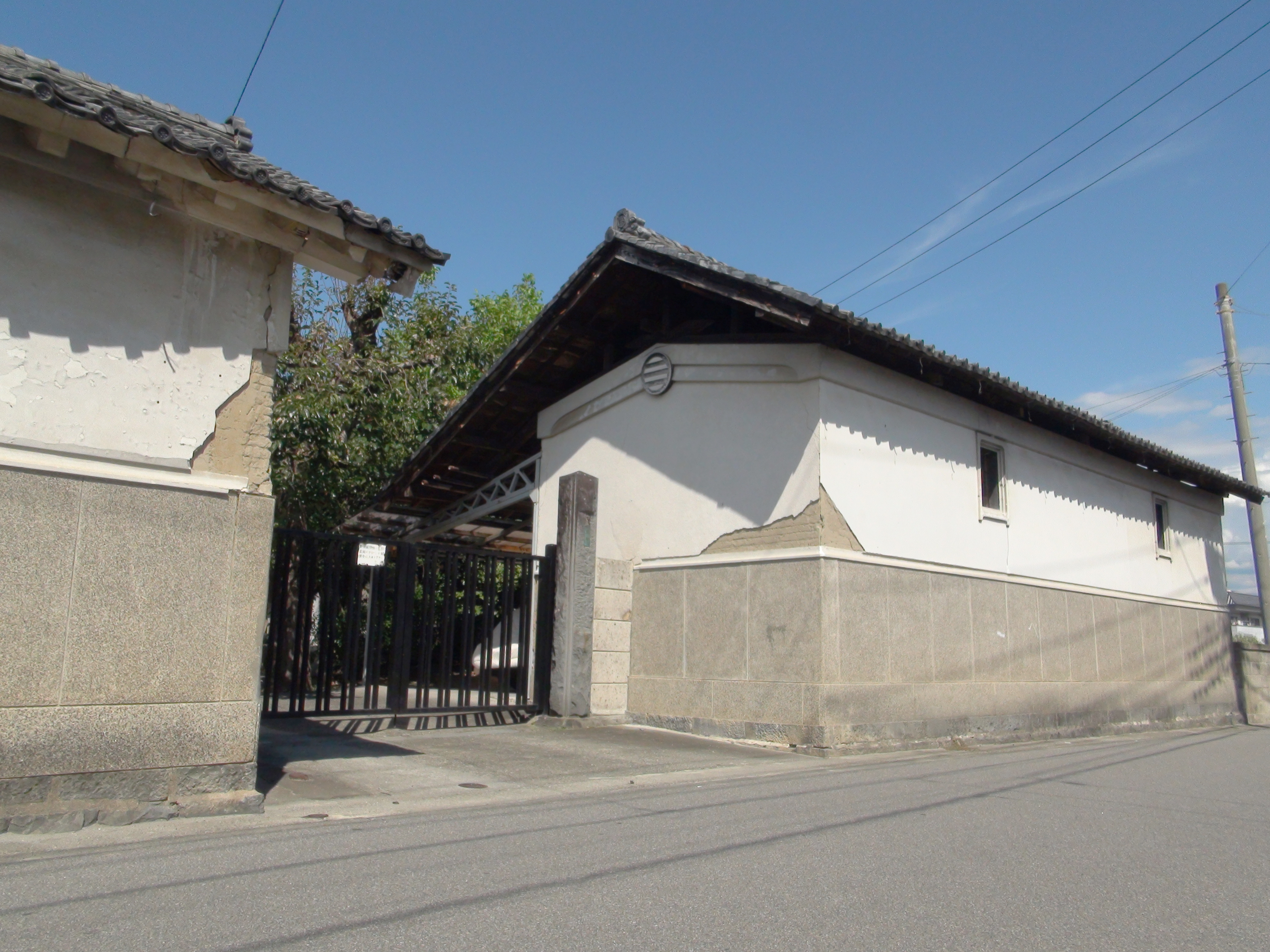 Mikami-internal medicine that it was performed the dissection to discover Schistosoma japonicum